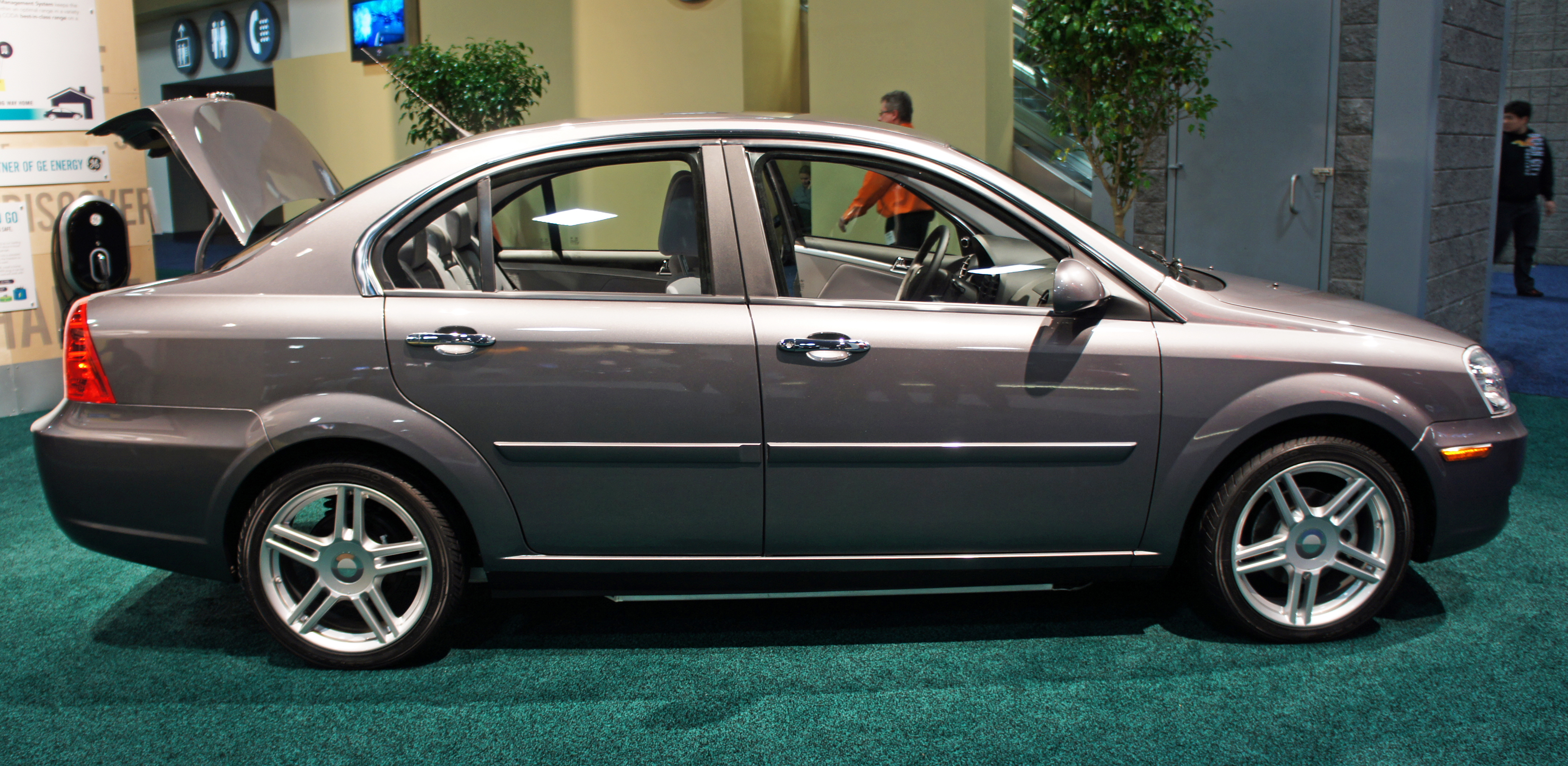 CODA electric car exhibited at the 2012 Washington Auto Show, District of Columbia.